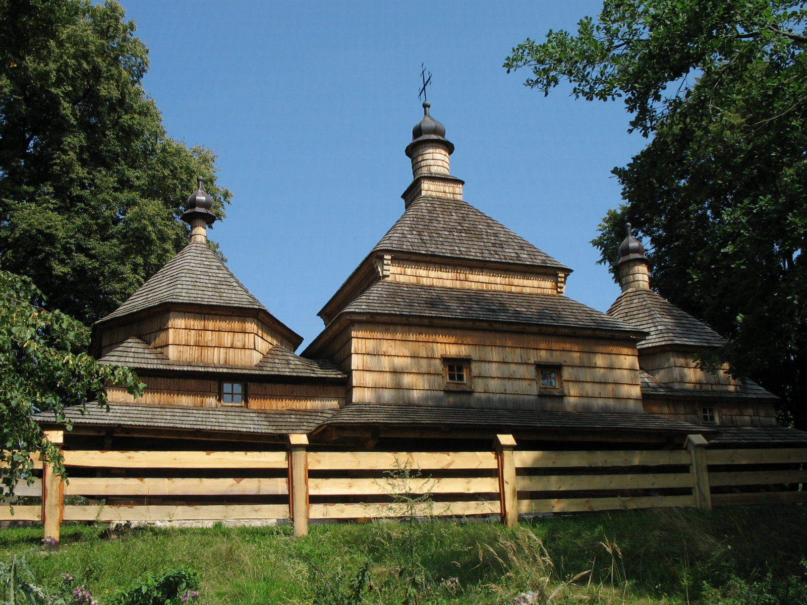 Gorajec (Poland), Greek Catholic church